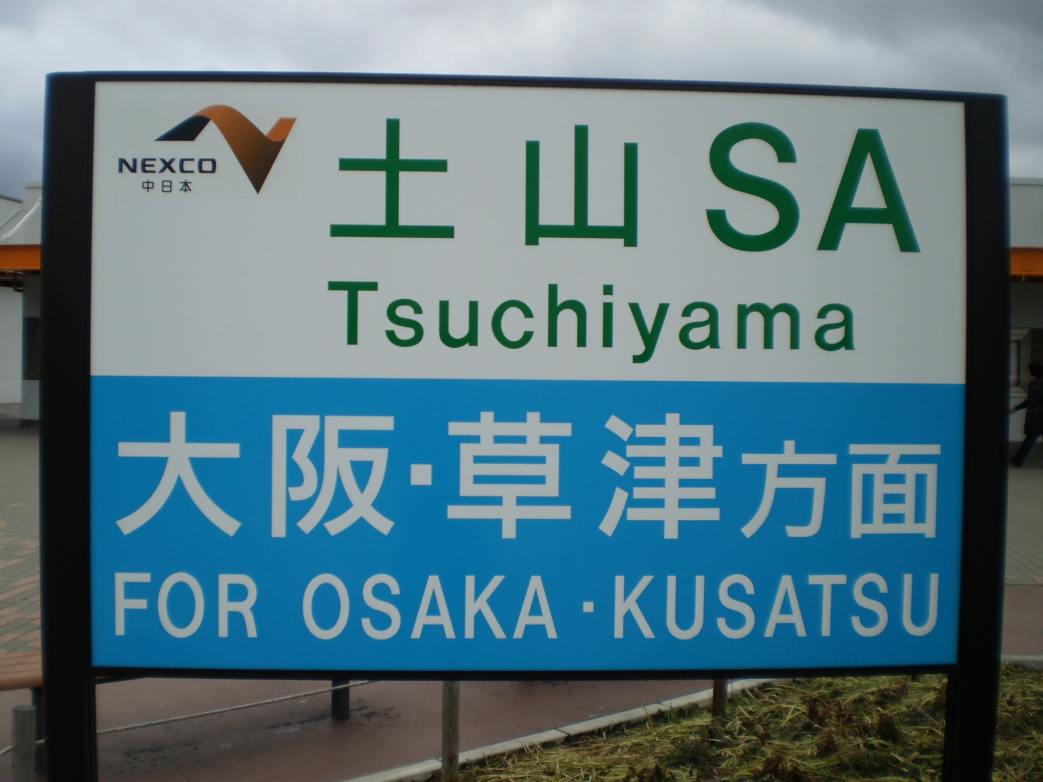 Tsuchiyama Service area